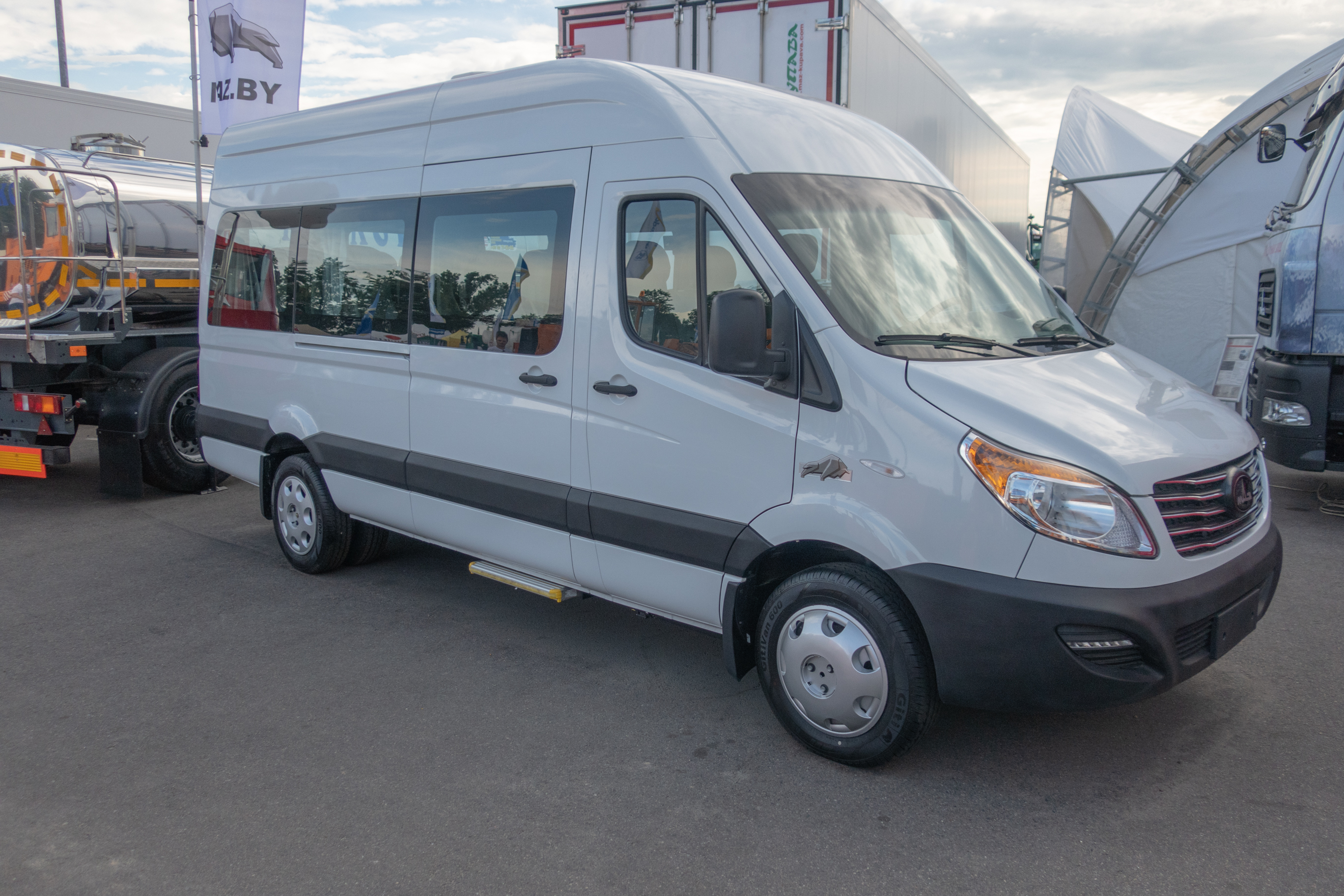 MAZ-281 minibus. Photo taken on Belagro-2019 exhibition (Minsk district, Belarus)